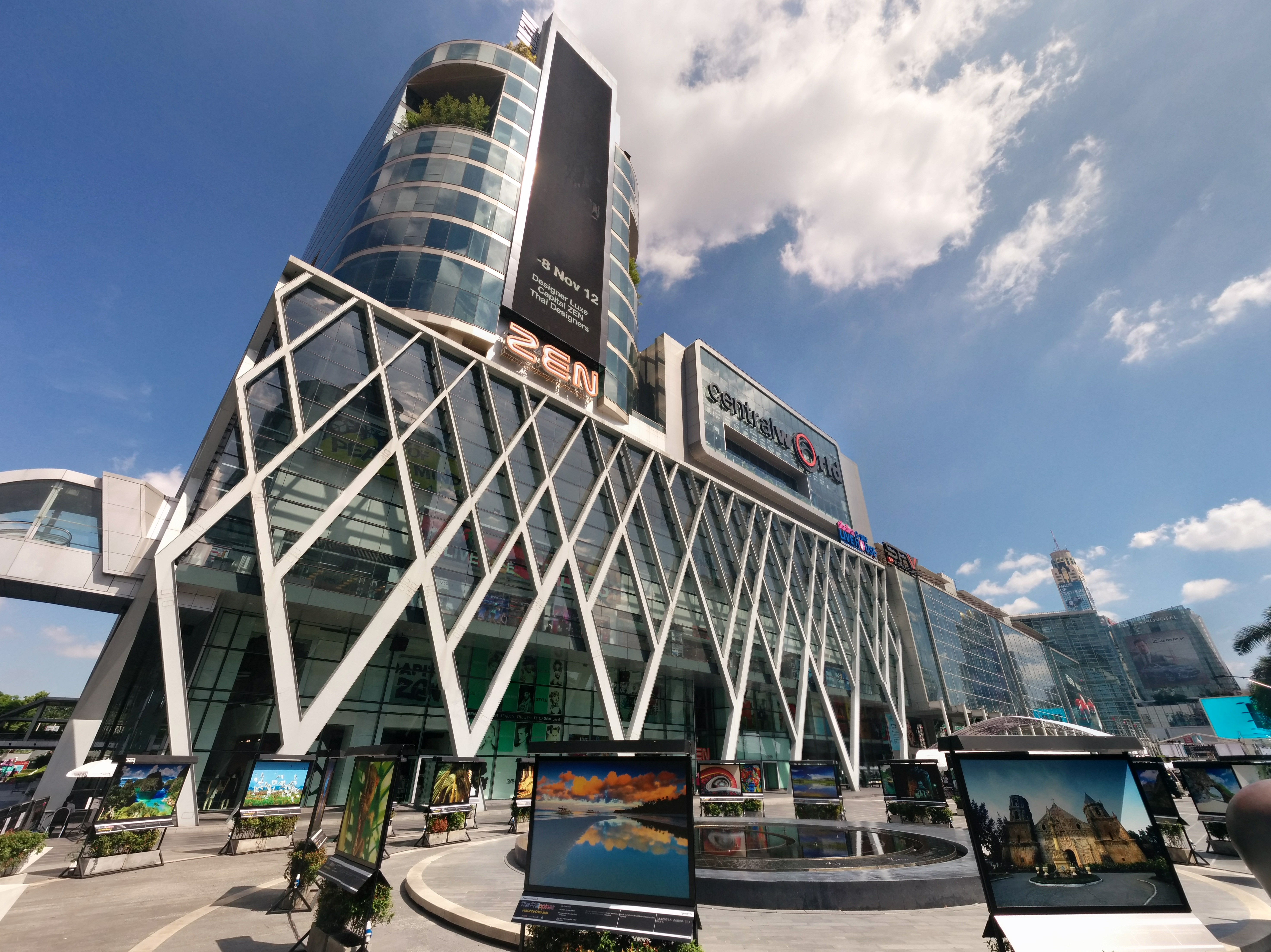 CW and ZEN